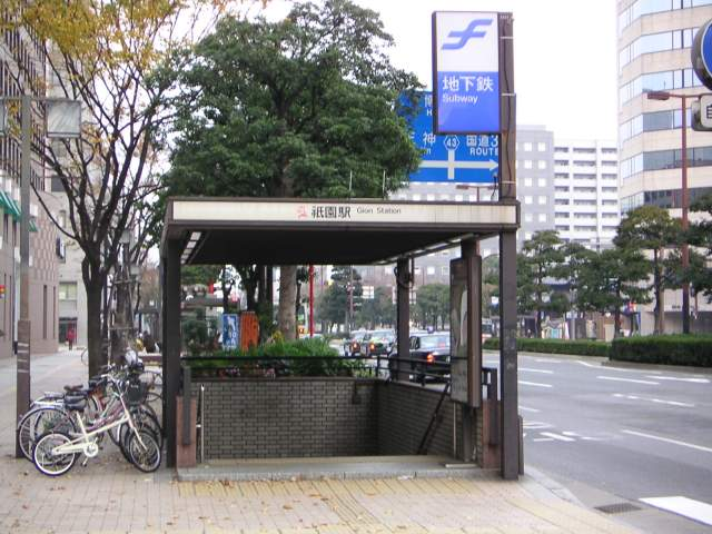 One ot the exit of Fukuoka municipal subway Gion station.